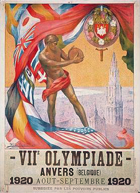 Poster of the 1920 olympic games. Printed in 90 000 copies in 17 languages plus French/Flamish bilingual versions.[1]